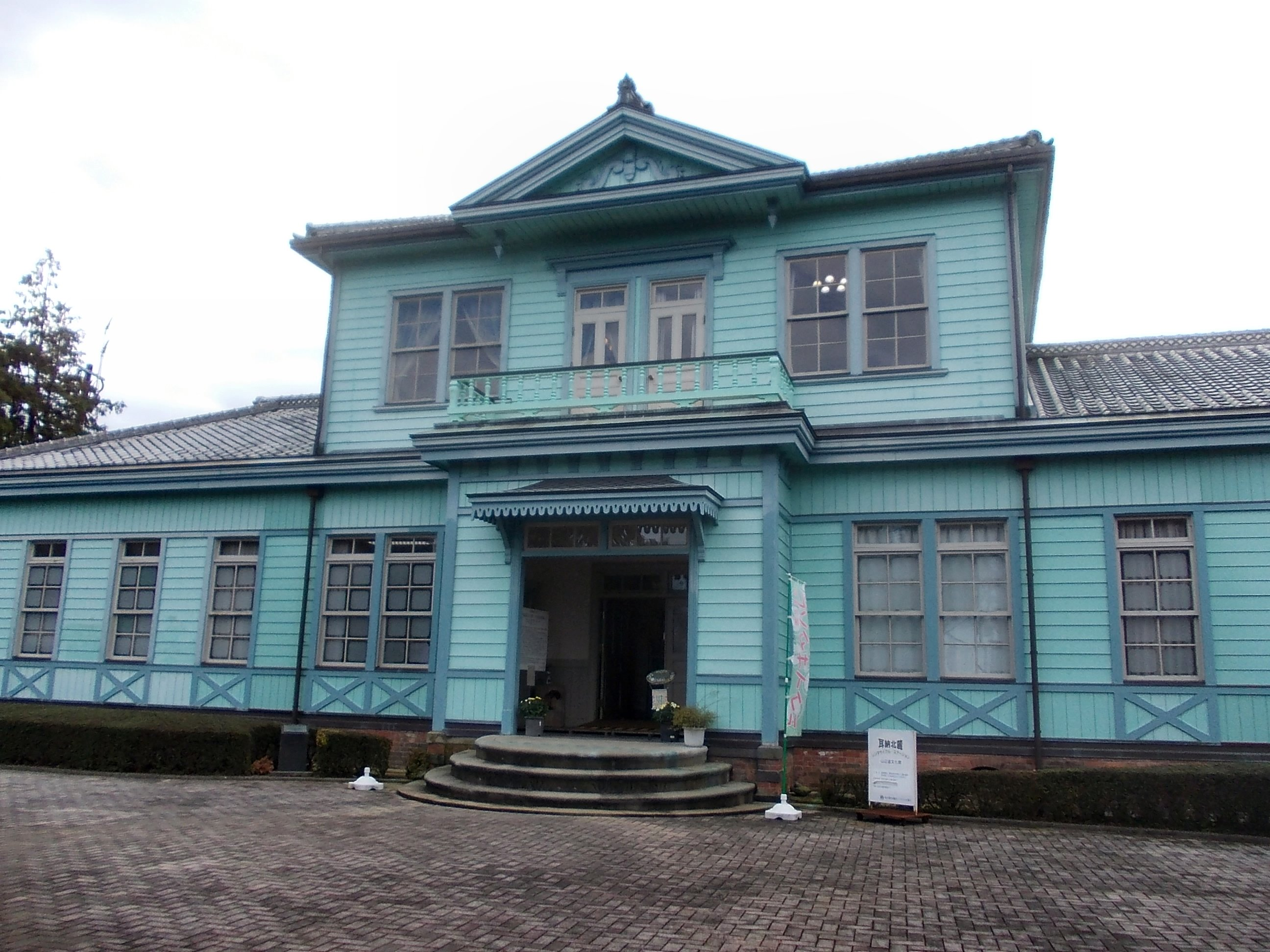 Yamabenomichi Culture Hall is a rest house located in the historical town of Kusano, Kurume, Fukuoka, Japan. Built in 1914, it is designated as a Western-style architecture of the Registered Tangible Cultural Property of Japan by the government.